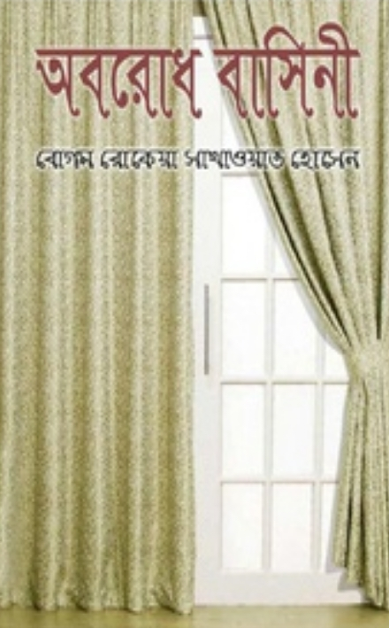 Cover photo of "Aborodh Bashini" book